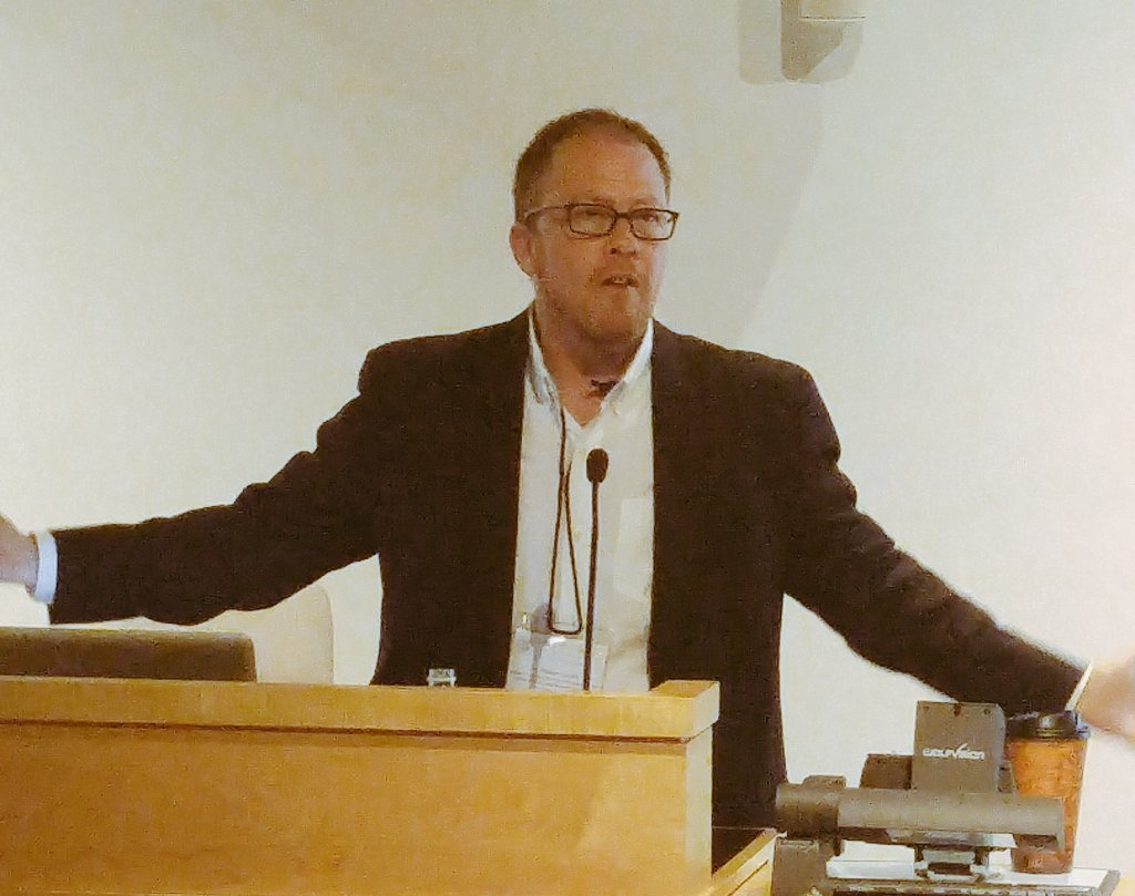 Paisley Currah